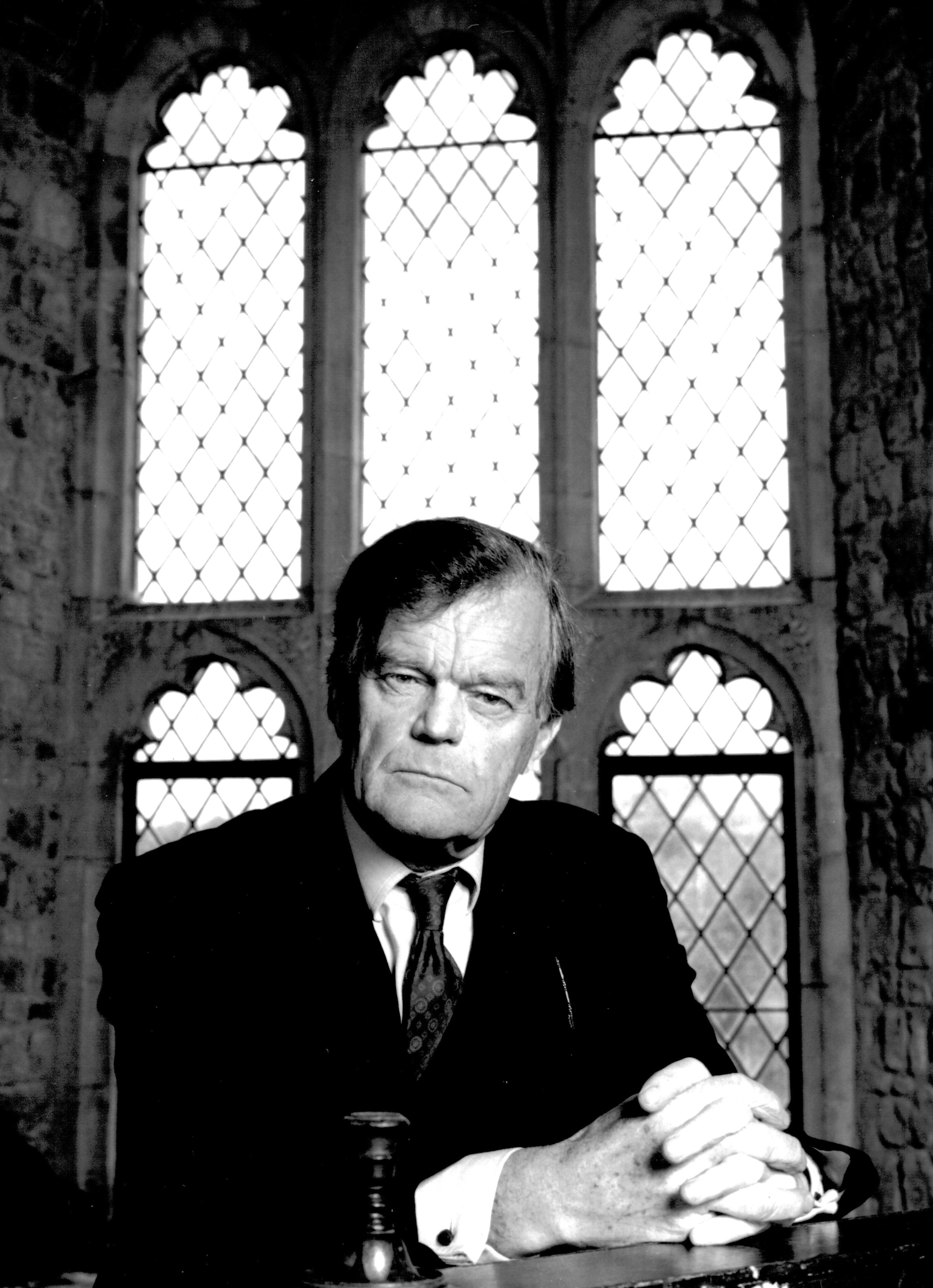 Alan Clark appearing on Opinions on 21 February 1993